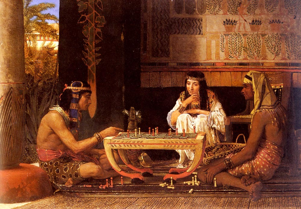 Egyptian chess players